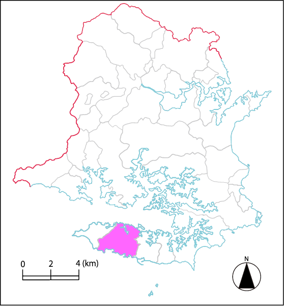 This is the map of Shimacho-Koshika, Shima, Mie, Japan.